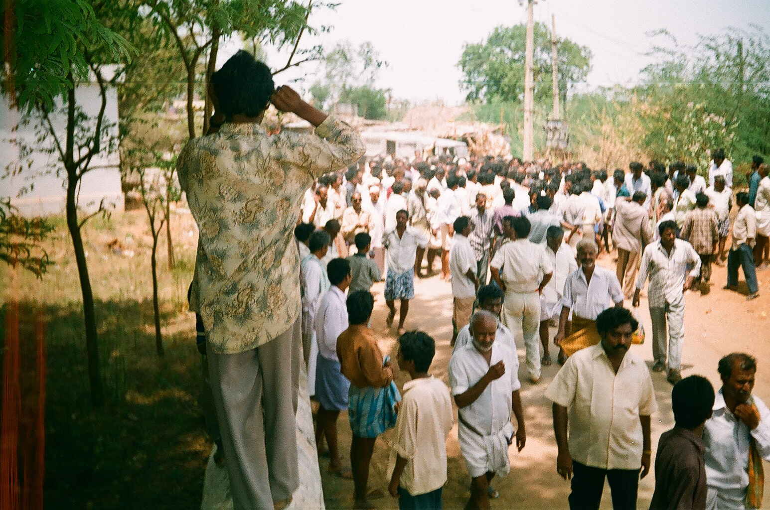 Photographer - Photo coverage of Mandal Parishad president oath utsav Rally